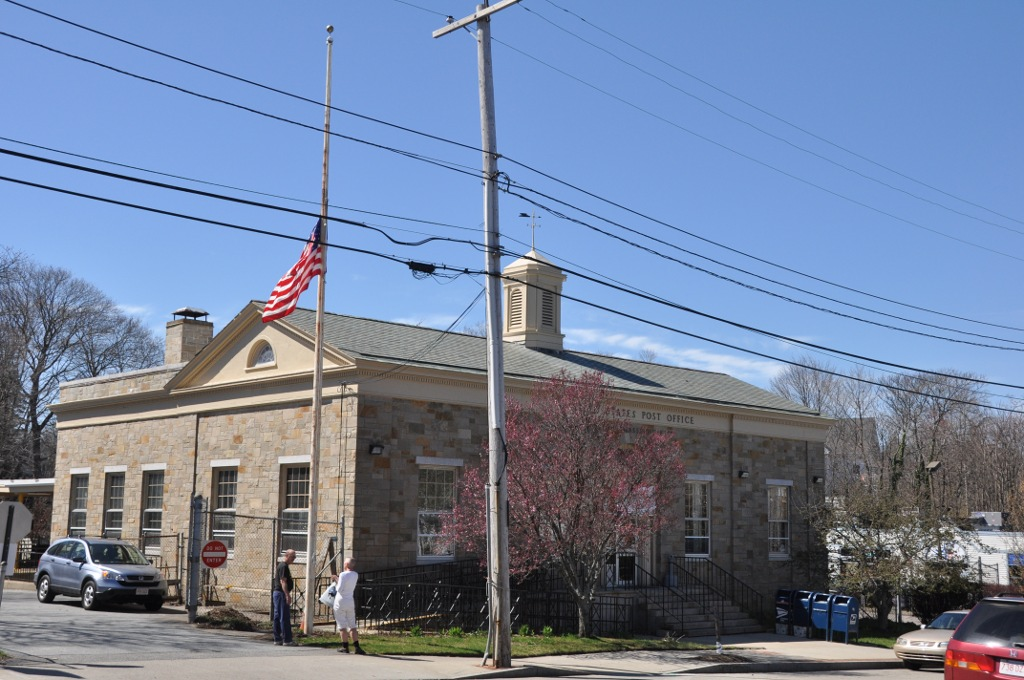 The historic United States Post Office–Weymouth LandingWeymouth, Massachusetts.